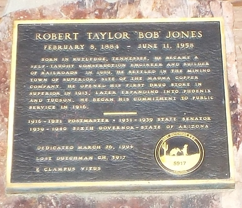 Robert Taylor "Bob" Jones' House Marker at 300 Main Street in Superior, Arizona.